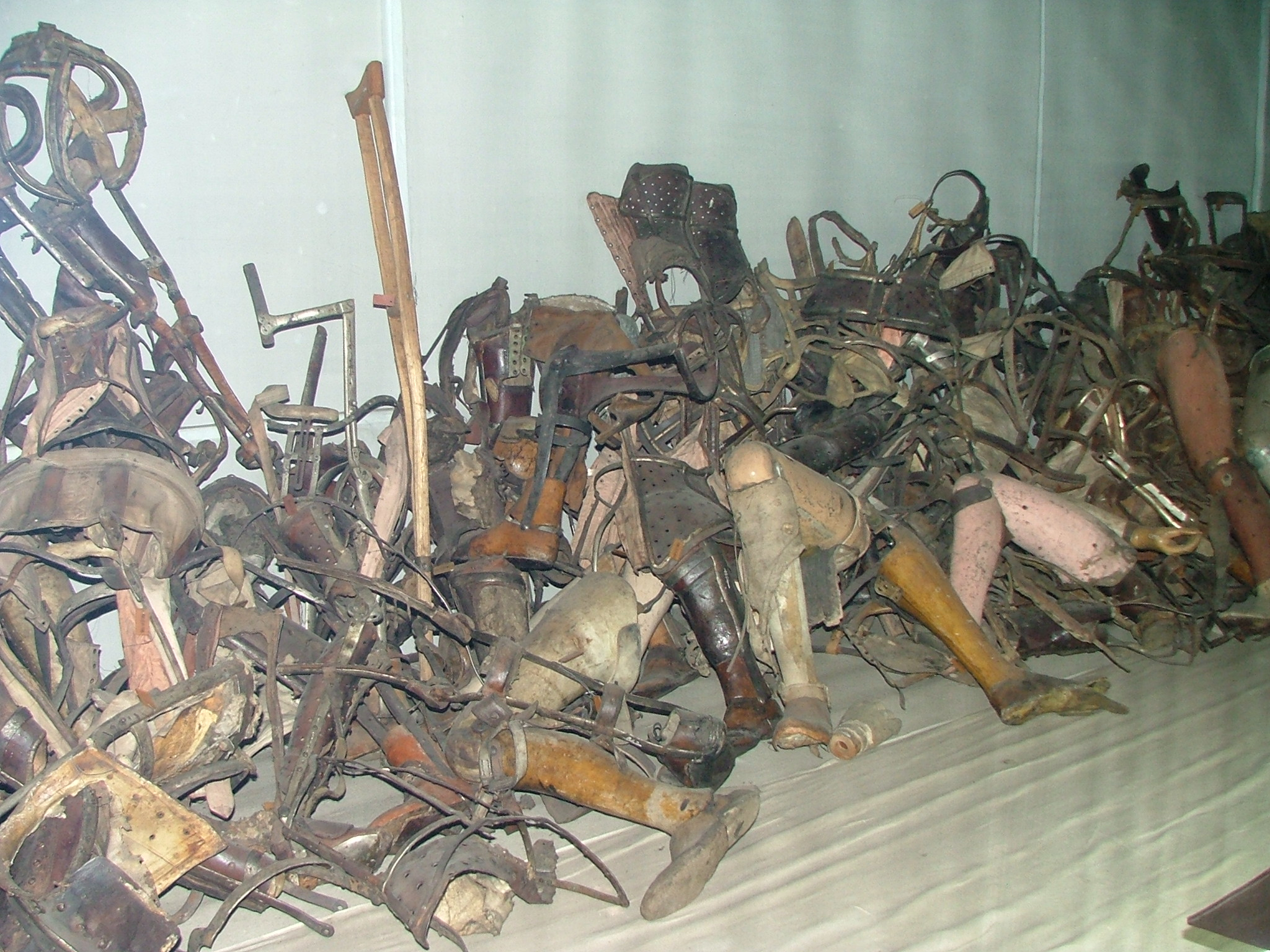 Auschwitz - Poland Auschwitz concentration camp